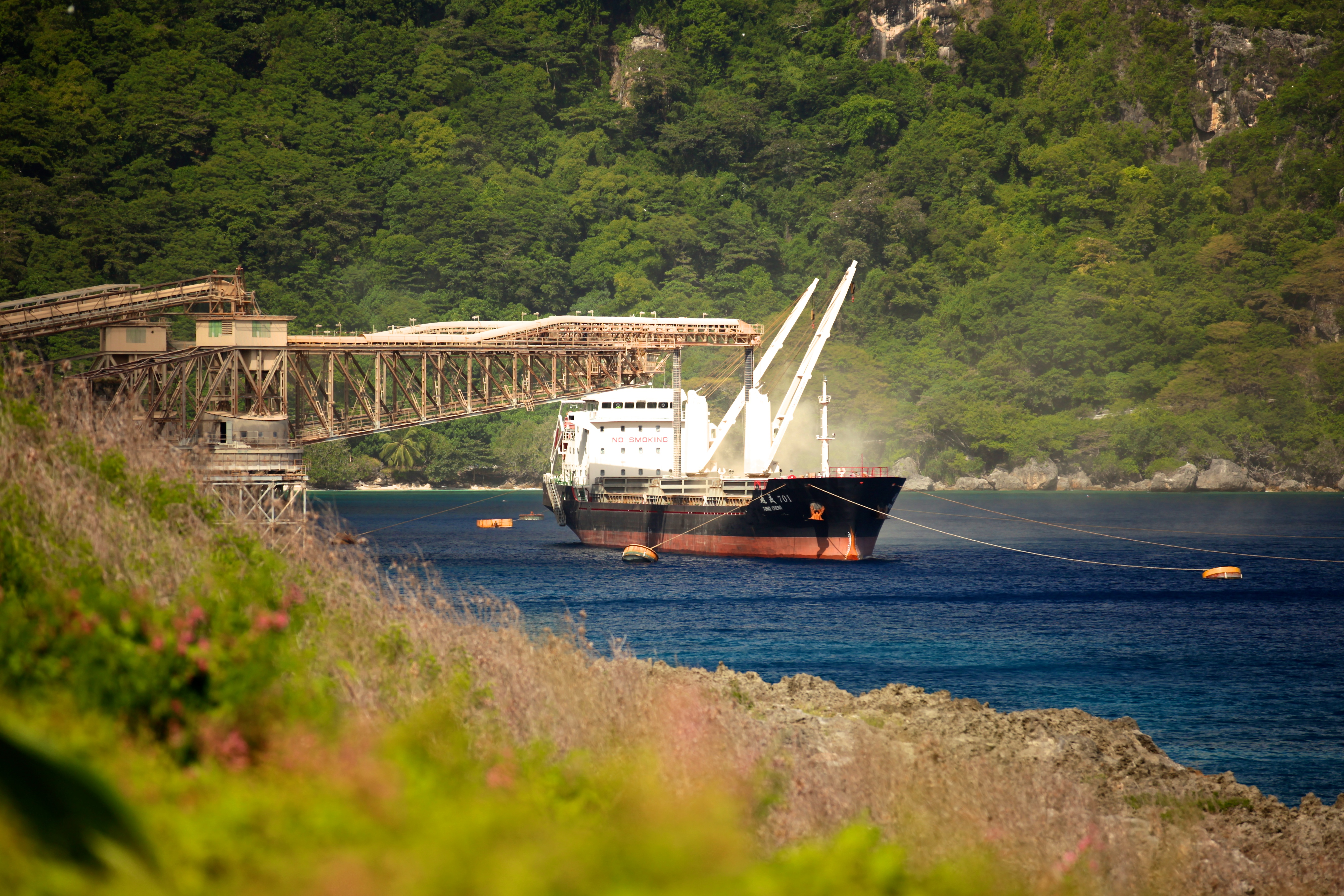 Phosphate is mined a exported from the Island.